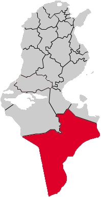 Map of Tunisia with highlighted Tataouine Governorate